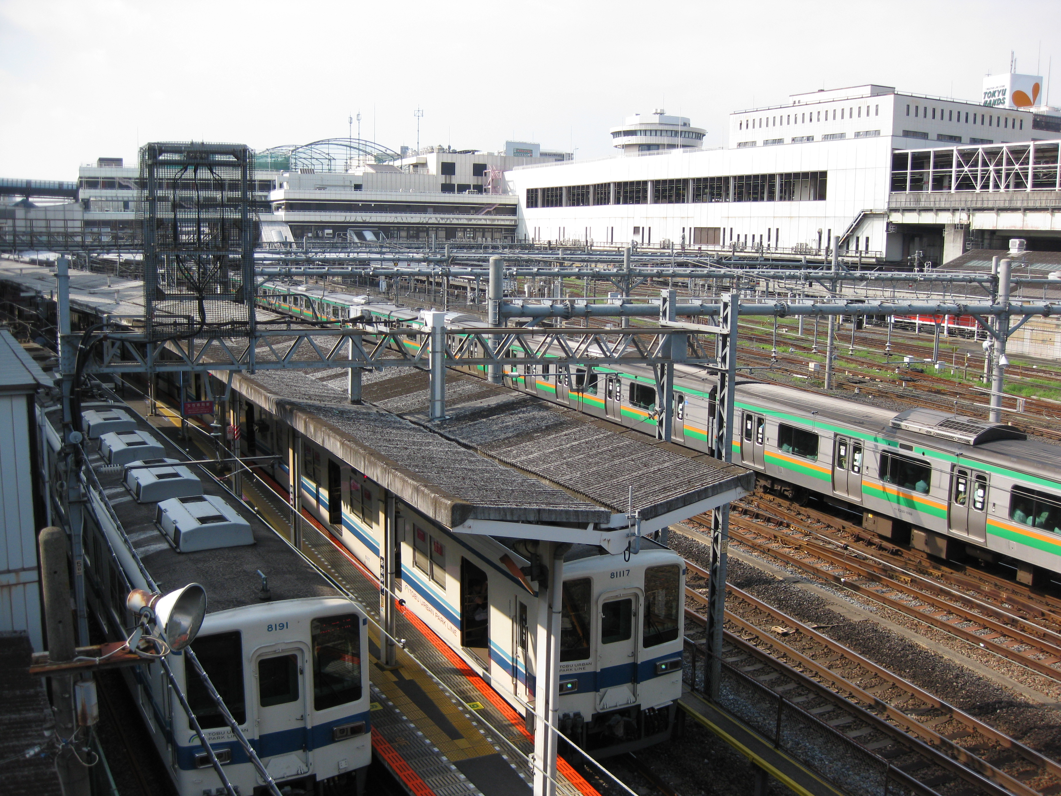 Omiya Station in Saitama, Japan, with the Tobu Urban Park Line platforms visible closest to the camera